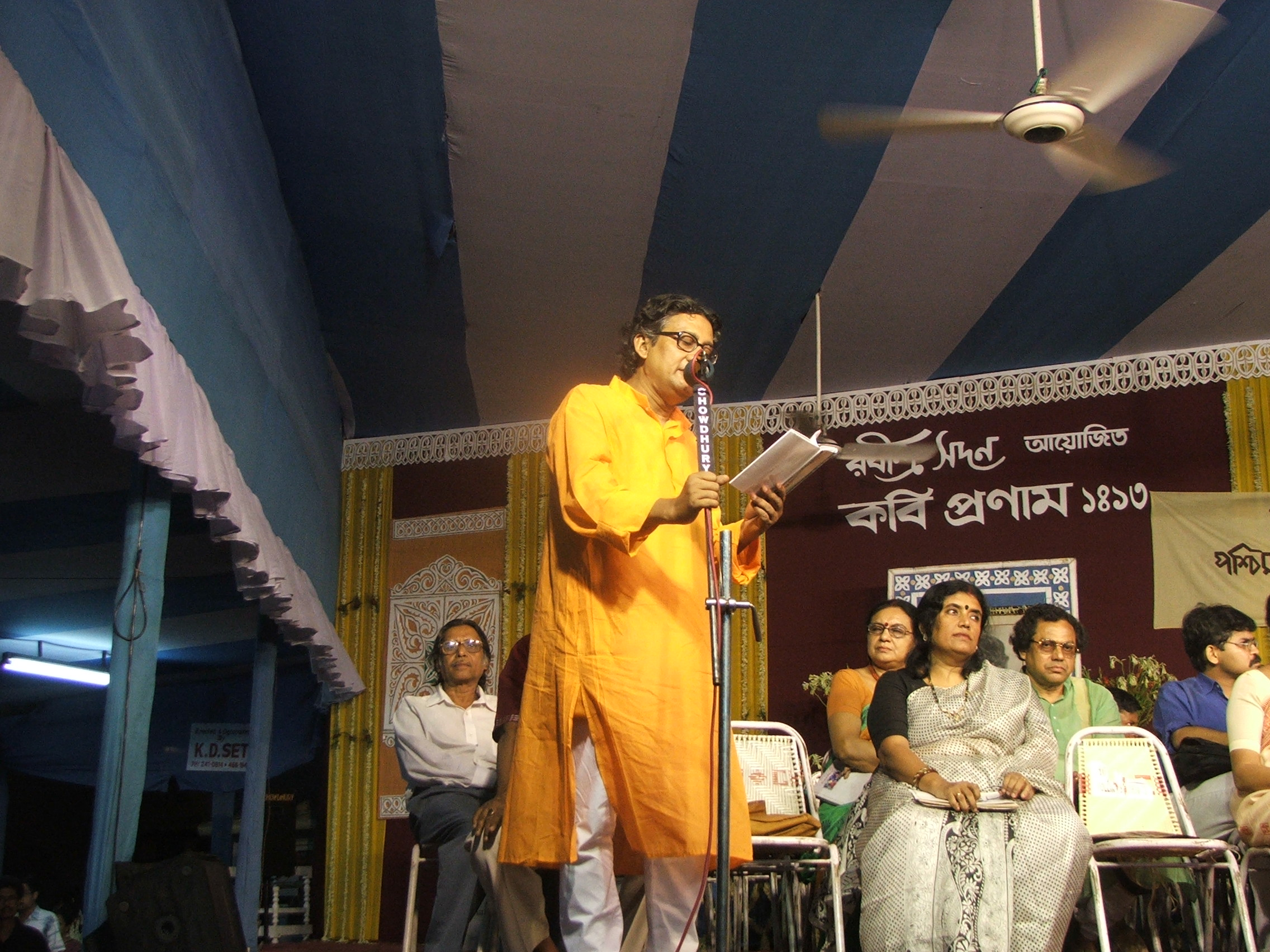 its I who took this picture, absolutely.